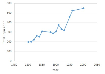 Gisleham Population Time Series Graph. Sources: Vision of Britain (Historical Census Figures) and Neighbourhood Statistics (2001 and 2011)